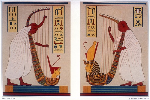 Harpers [before deities]. Scene from tomb of Ramses III. (KV11)